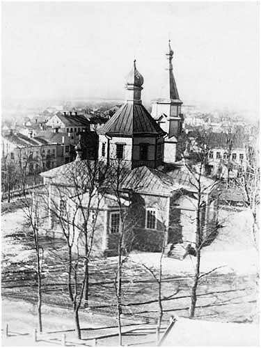 St Peter and Paul Church in Vawkavysk (1900s)